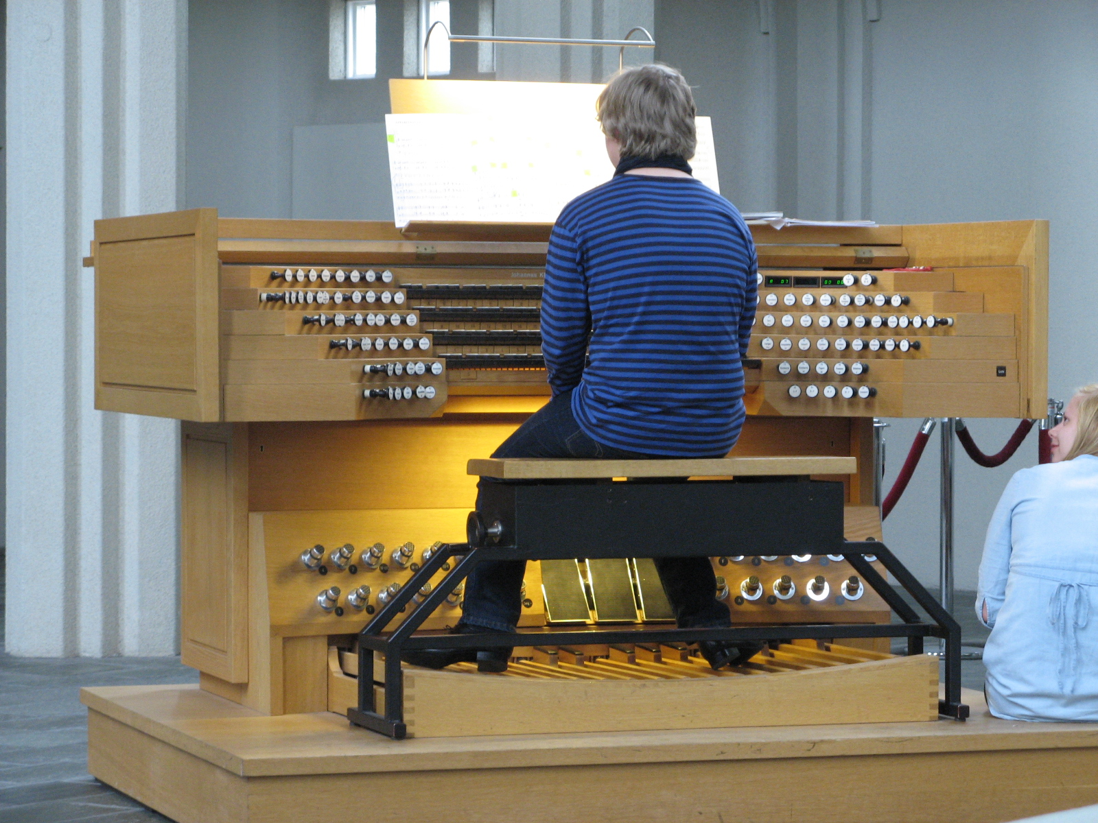 Reykjavik, Hallgrímskirkja. Console of the main organ of the church Pétur Sakari playing at a rehearsal for the concert he gave later at midnight on the same day as this picture was taken